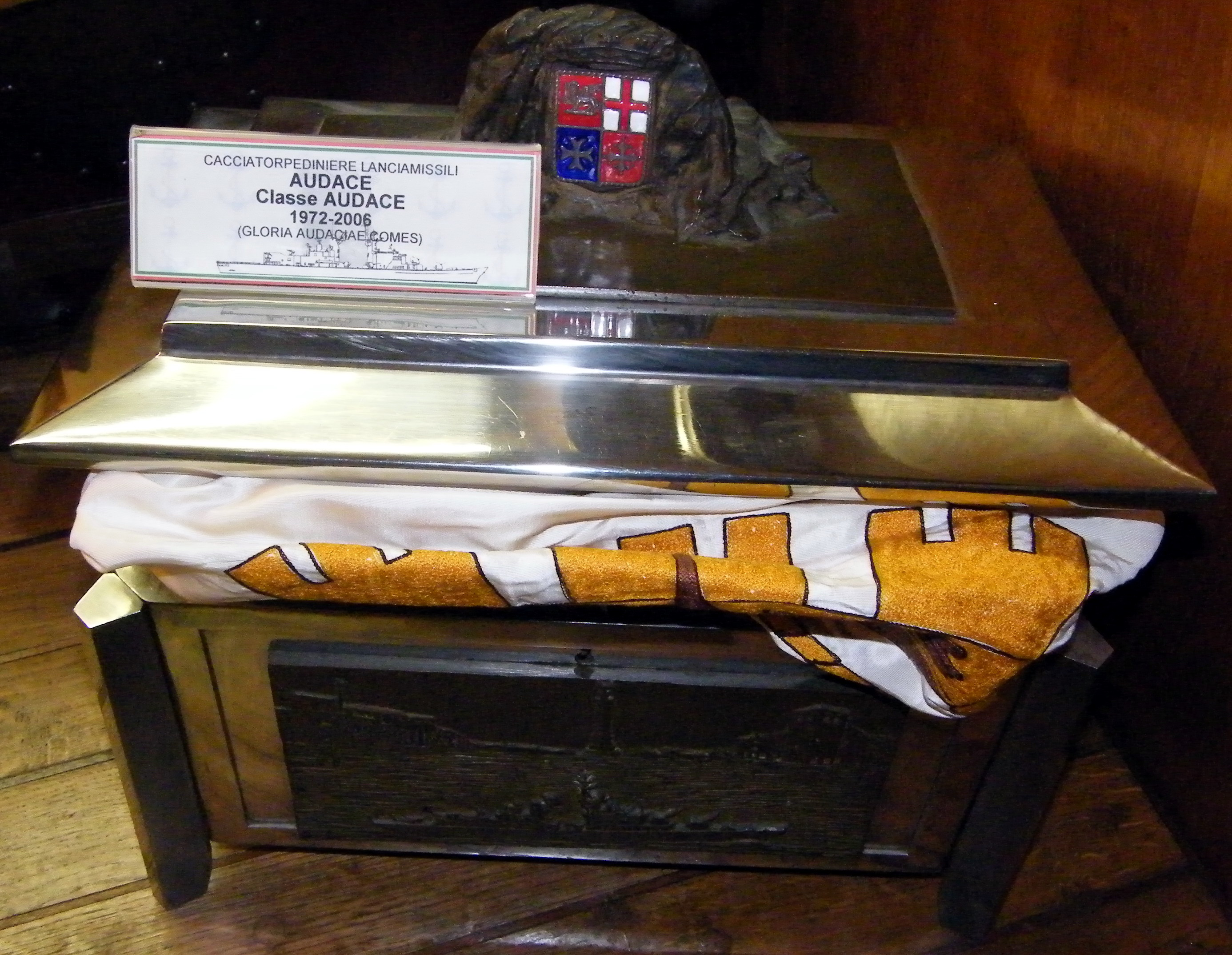 Flag of italian destroyer Audace